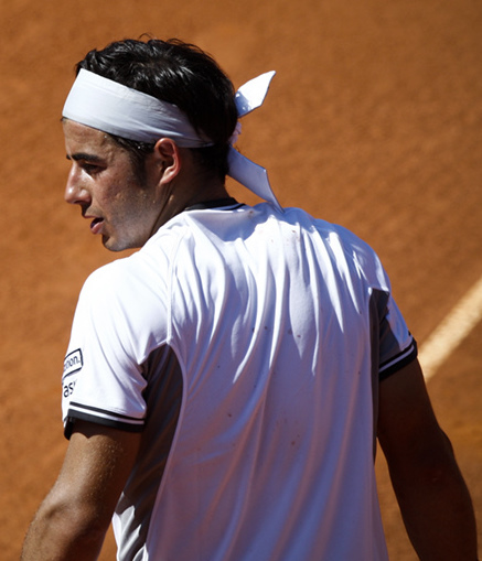 Frederico Gil at 2009 Estoril Open, Oeiras, Portugal